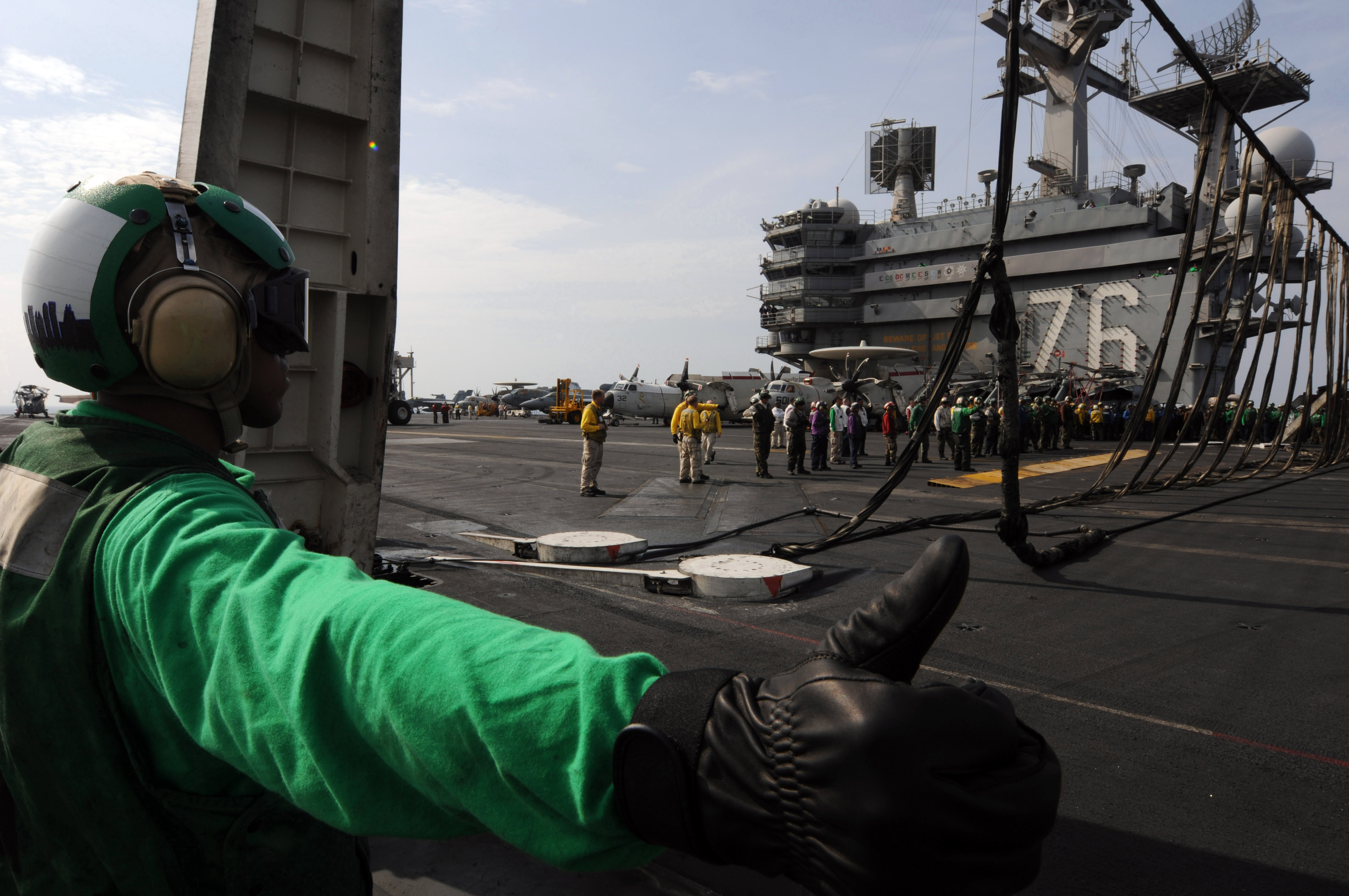 081022-N-3659B-229 INDIAN OCEAN (Oct. 22, 2008) Aviation Boatswain's Mate (Equipment) 3rd Class Morris Thomas gives the hand signal to raise the barricade stanchions during flight deck drills aboard the Nimitz-class aircraft carrier USS Ronald Reagan (CVN 76). The Ronald Reagan Carrier Strike Group is on a scheduled deployment in the 7th Fleet area of responsibility operating in the western Pacific and Indian oceans.